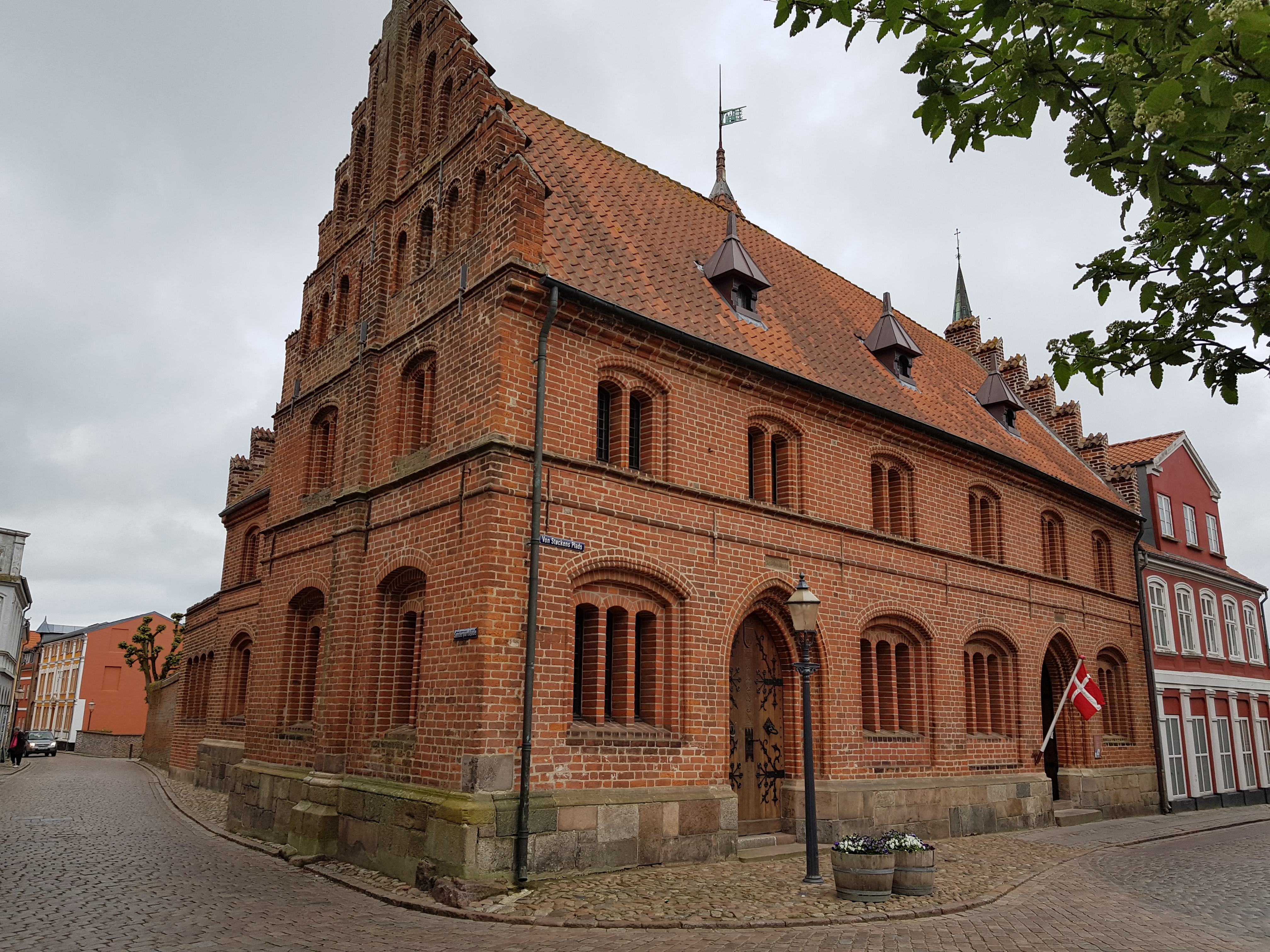 The former townhall of Ribe, Denmark, originally 2 middle age houses, modified to the current building in 1528